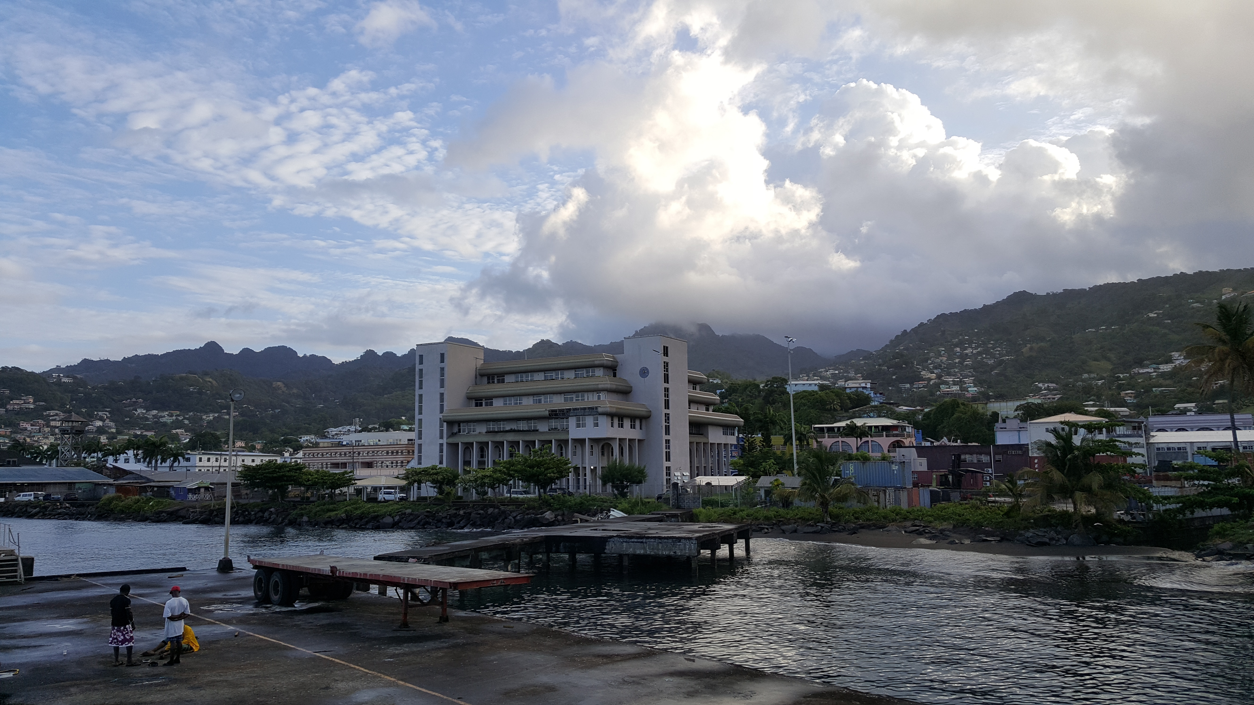 Kingstown, St. Vincent